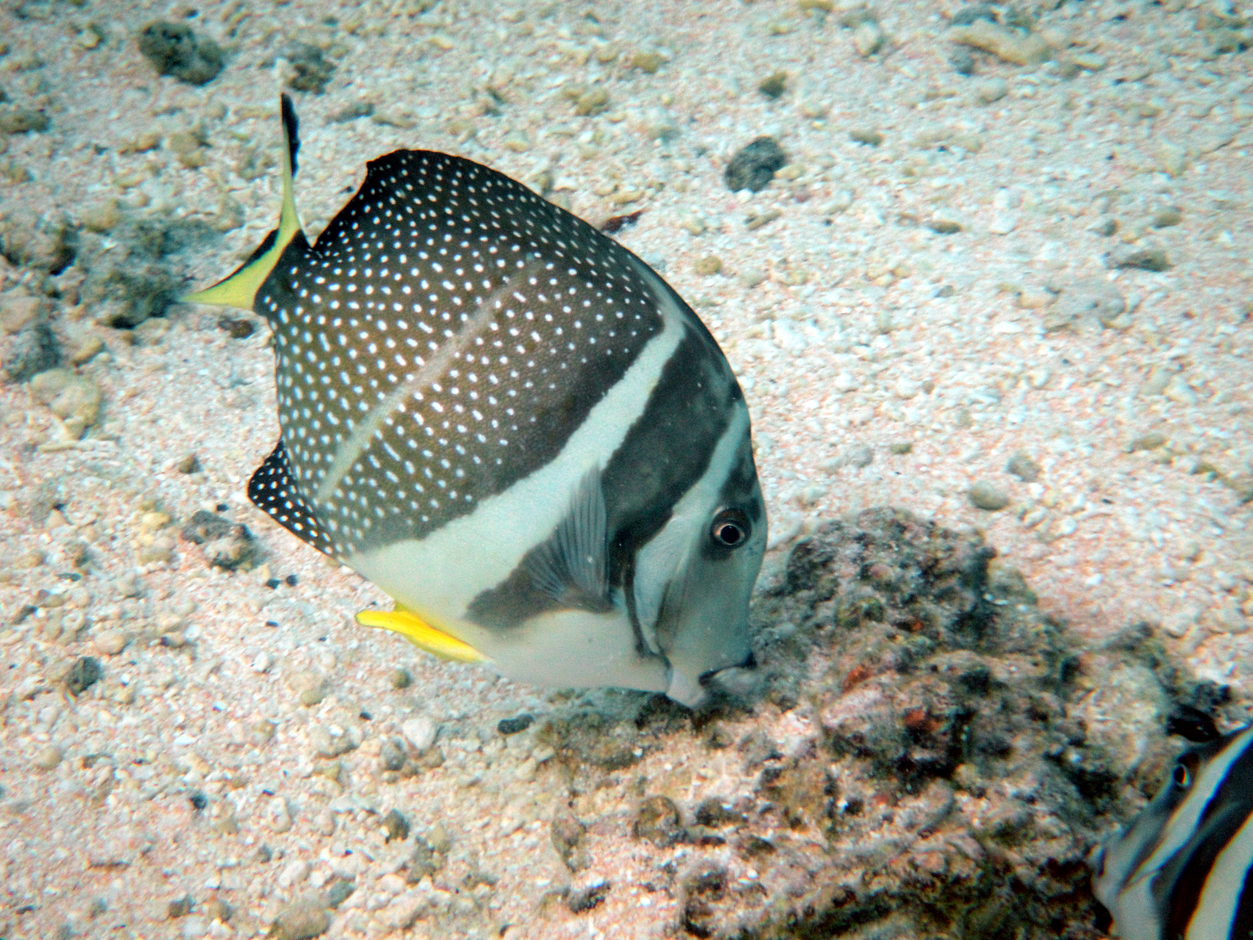 Acanthurus guttatus